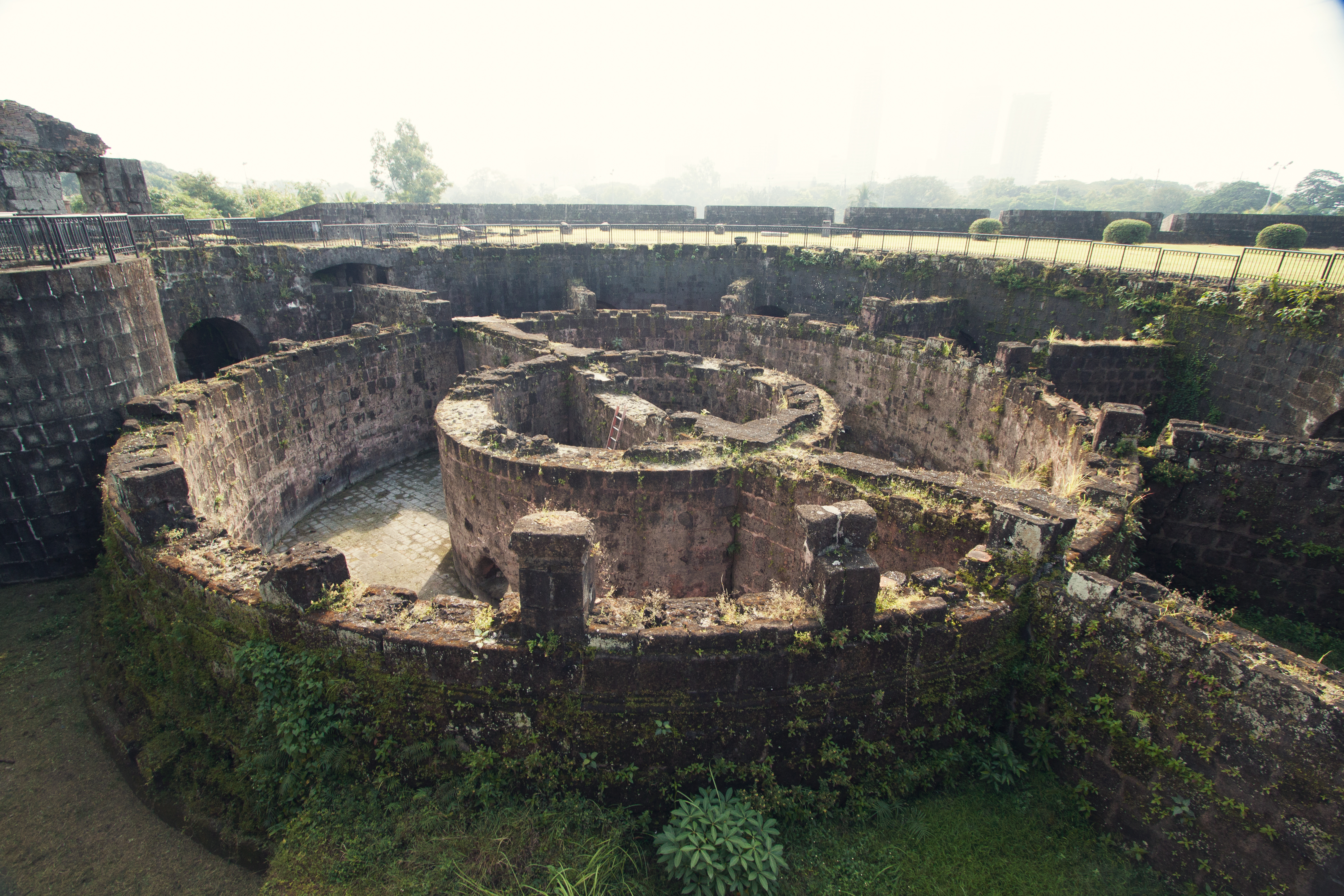 One of the oldest stone fortifications in Intramuros. It is a circular one.